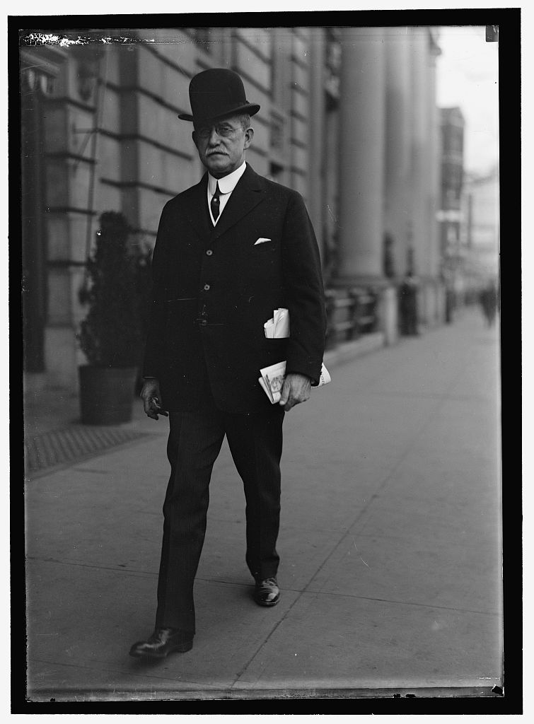 William C. Mooney, congressman from Woodsfield, Ohio. Glass negative 5x7 inches or smaller.